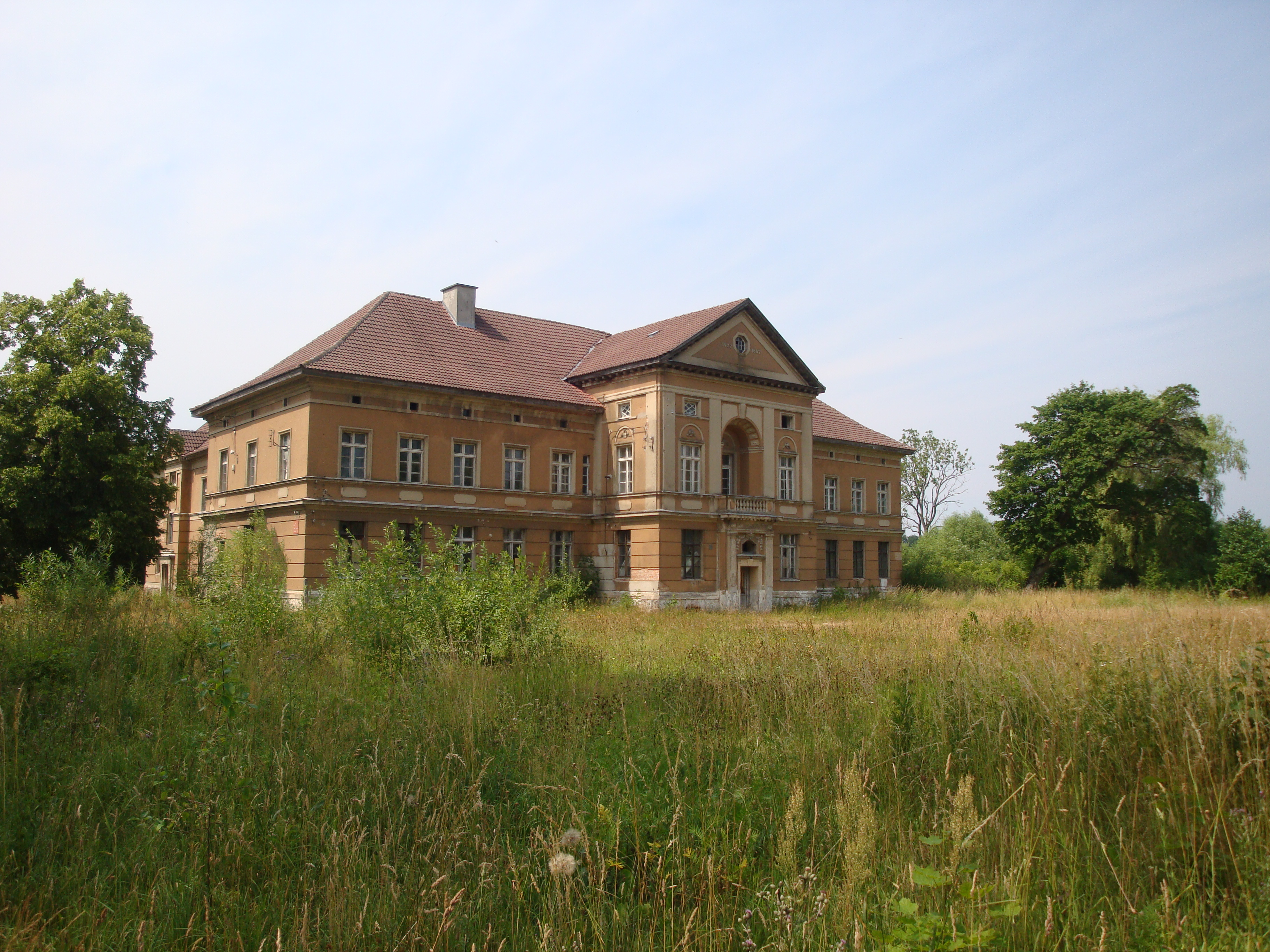 Zdrzewno-village in Gmina Wicko, Poland. Palace